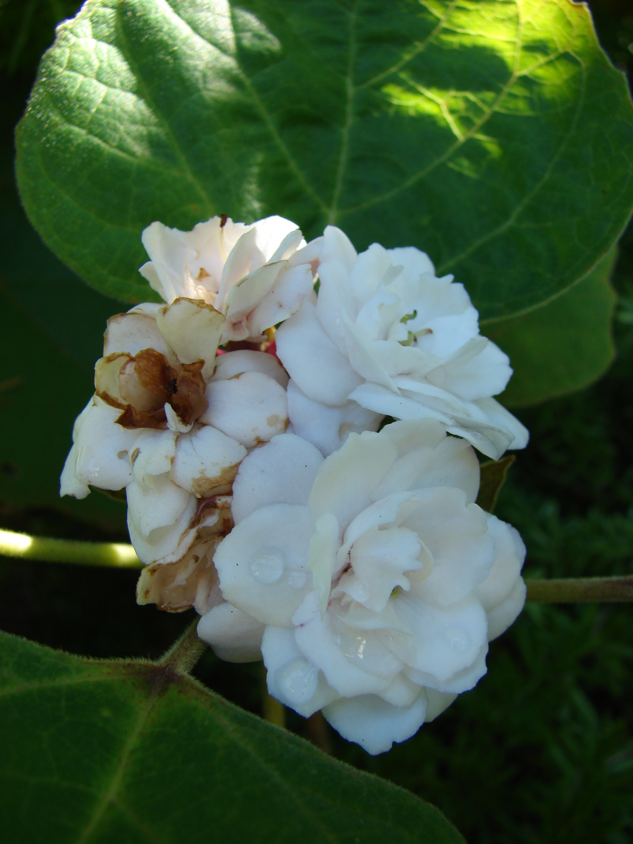 Clerodendrum chinense (flowers). Location: Maui, Enchanting Floral Gardens of Kula